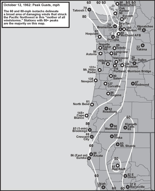 I created this image, which shows storm peak-gusts at many official stations in CA, OR and WA during the 1962 Columbus Day storm